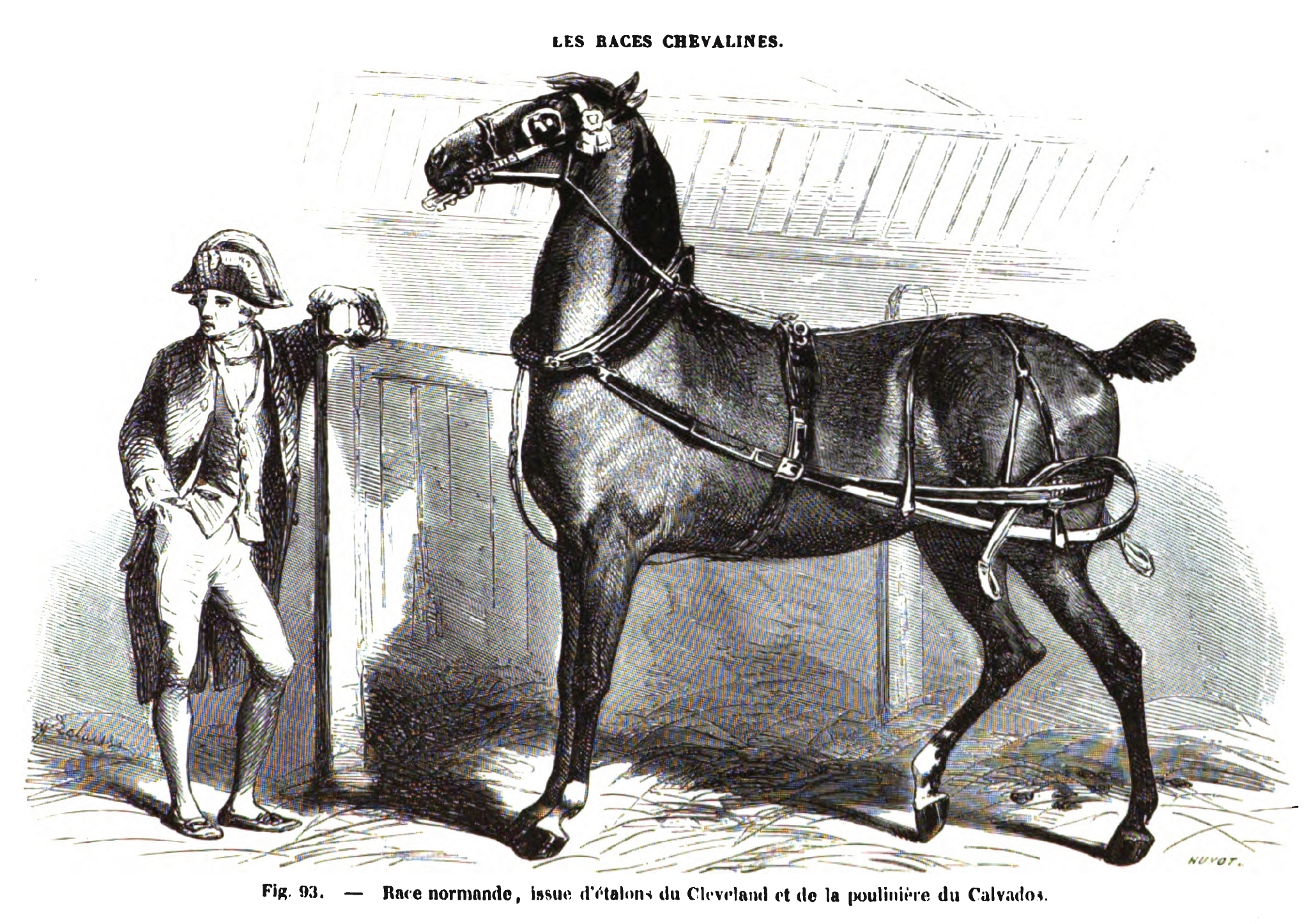 Carossier Normand